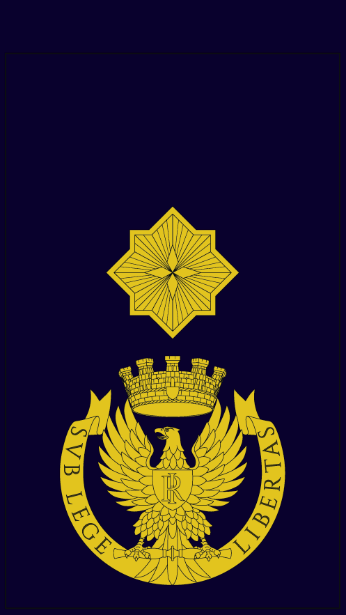 Rank insigna of "Commissario capo" of the Italian Police.